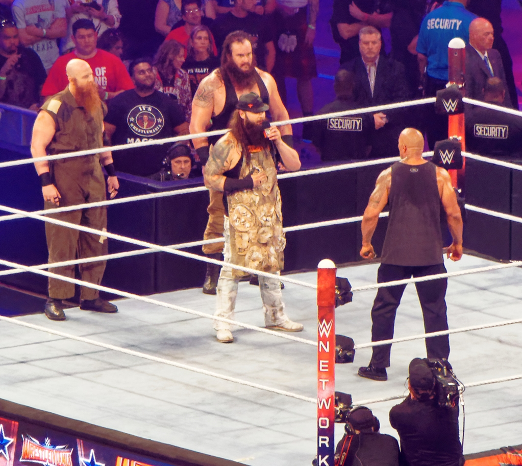 The Wyatt Family (Bray Wyatt, Erick Rowan and Braun Strowman) confronts The Rock at WrestleMania 32 in April 3, 2016.